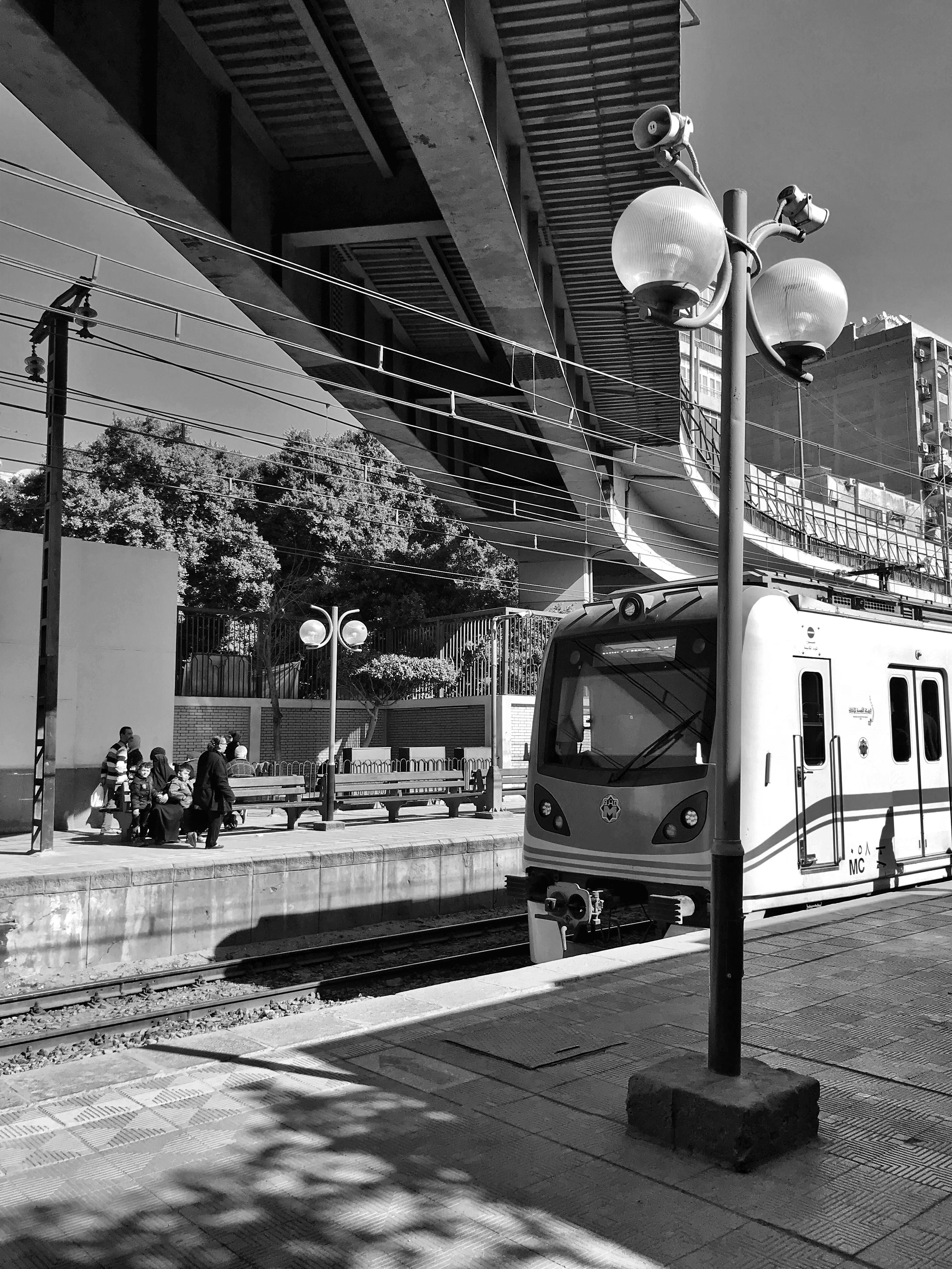 A train arrives at El Zahraa Station in Cairo, Egypt. Above is a road flyover to the city center. This is an image with the theme "Africa on the Move or Transport" from: Egypt